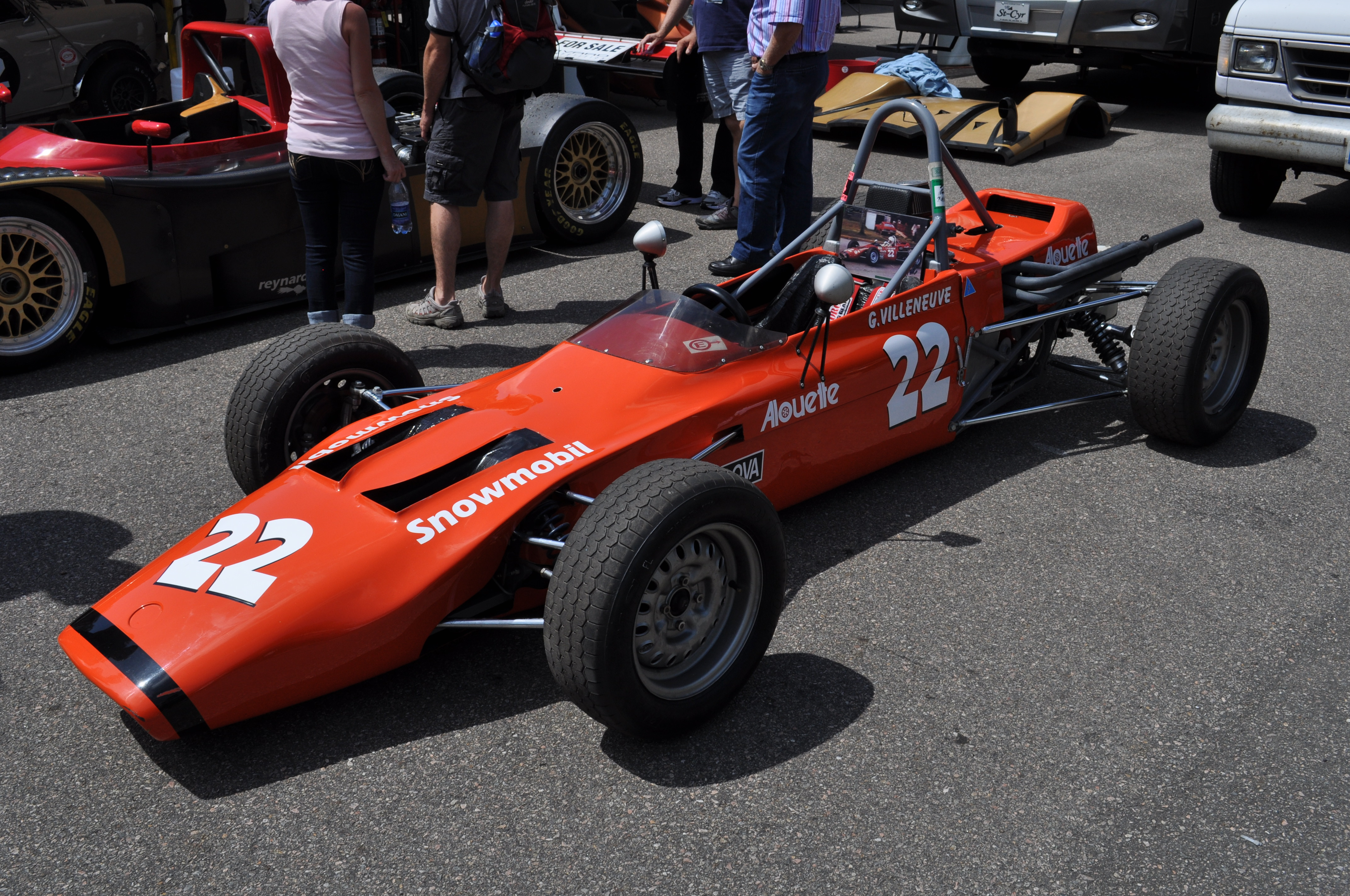 Gilles Villeneuve's Magnum MkIII Formula Ford racing car, in the paddock at Circuit Mont-Tremblant during the 2010 Legends of Motorsport meeting.